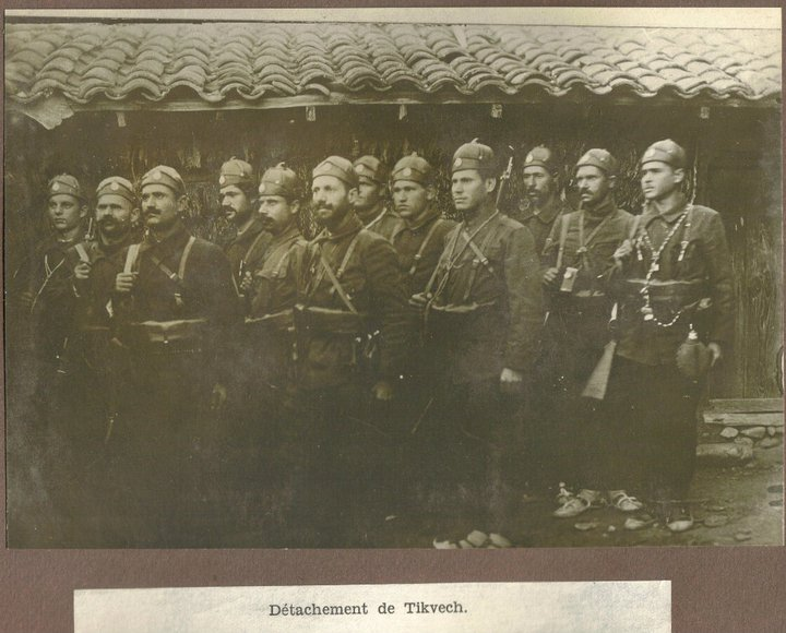 Imaro cheta of Tikvesh region